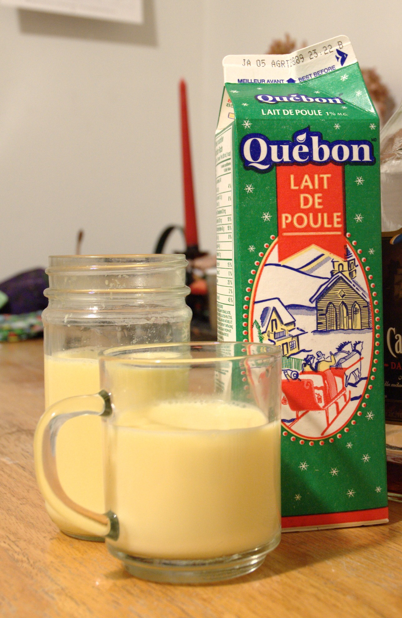 Glasses and a carton of eggnog (called by its French name "Lait de Poule," meaning "chicken milk")